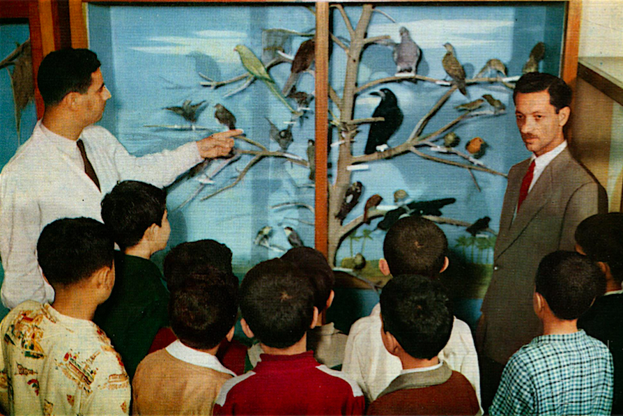 Display case at the Natural History Museum, Baghdad, photographed c1954